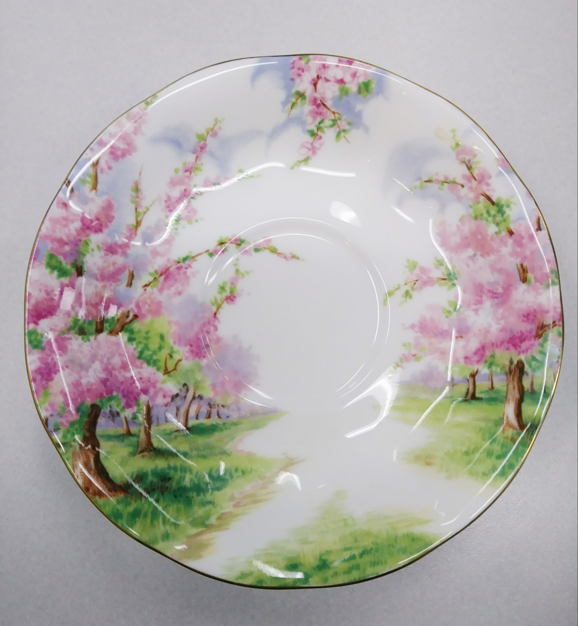 A tea saucer showing a scene of apple trees blossoming in an orchard